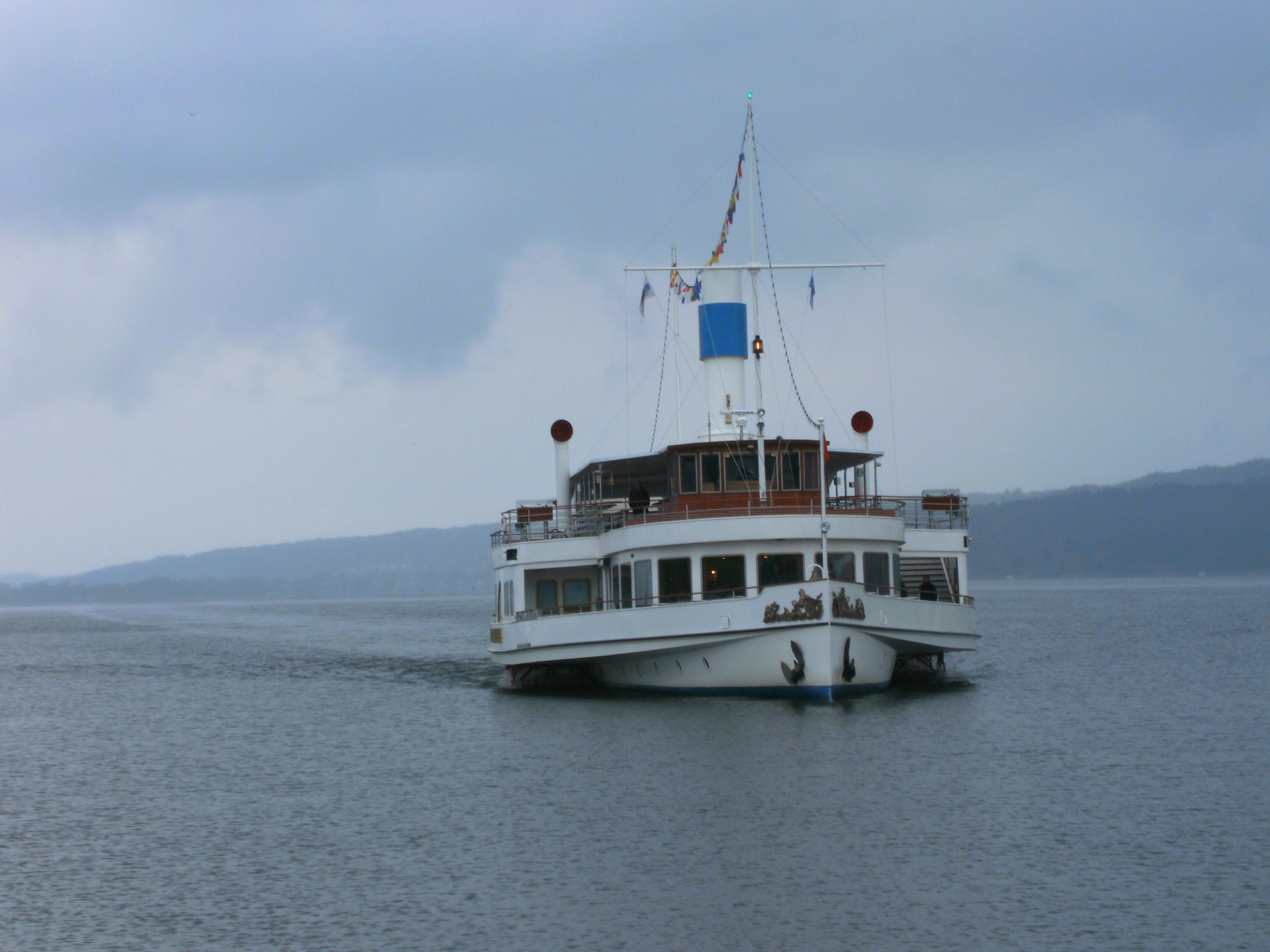 Herrsching (ship, 2002): Just before landing in Herrsching at Ammersee, Germany.